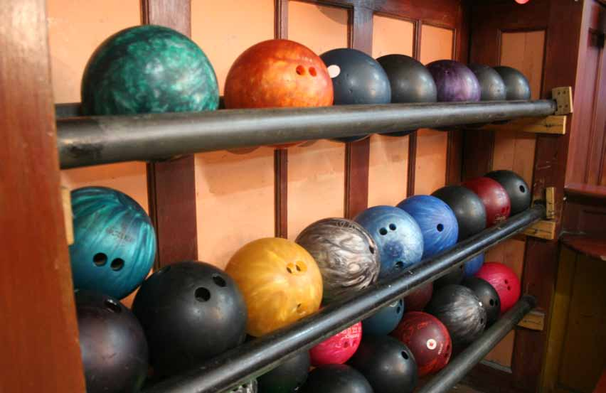 bowling